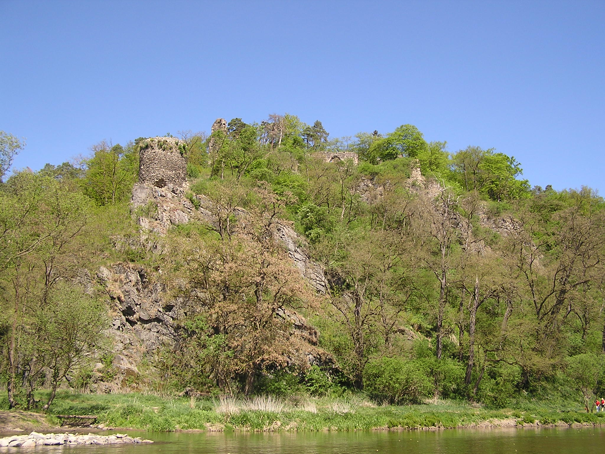 Ruins of Zbořený Kostelec